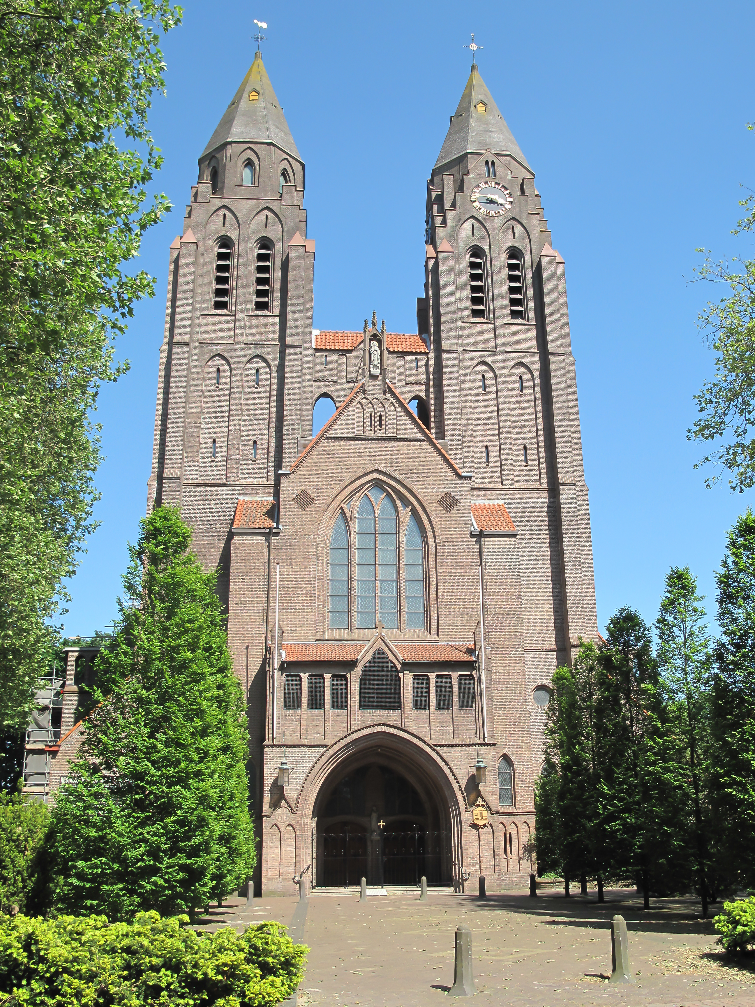 Laren, basilica: de Sint Jansbasiliek